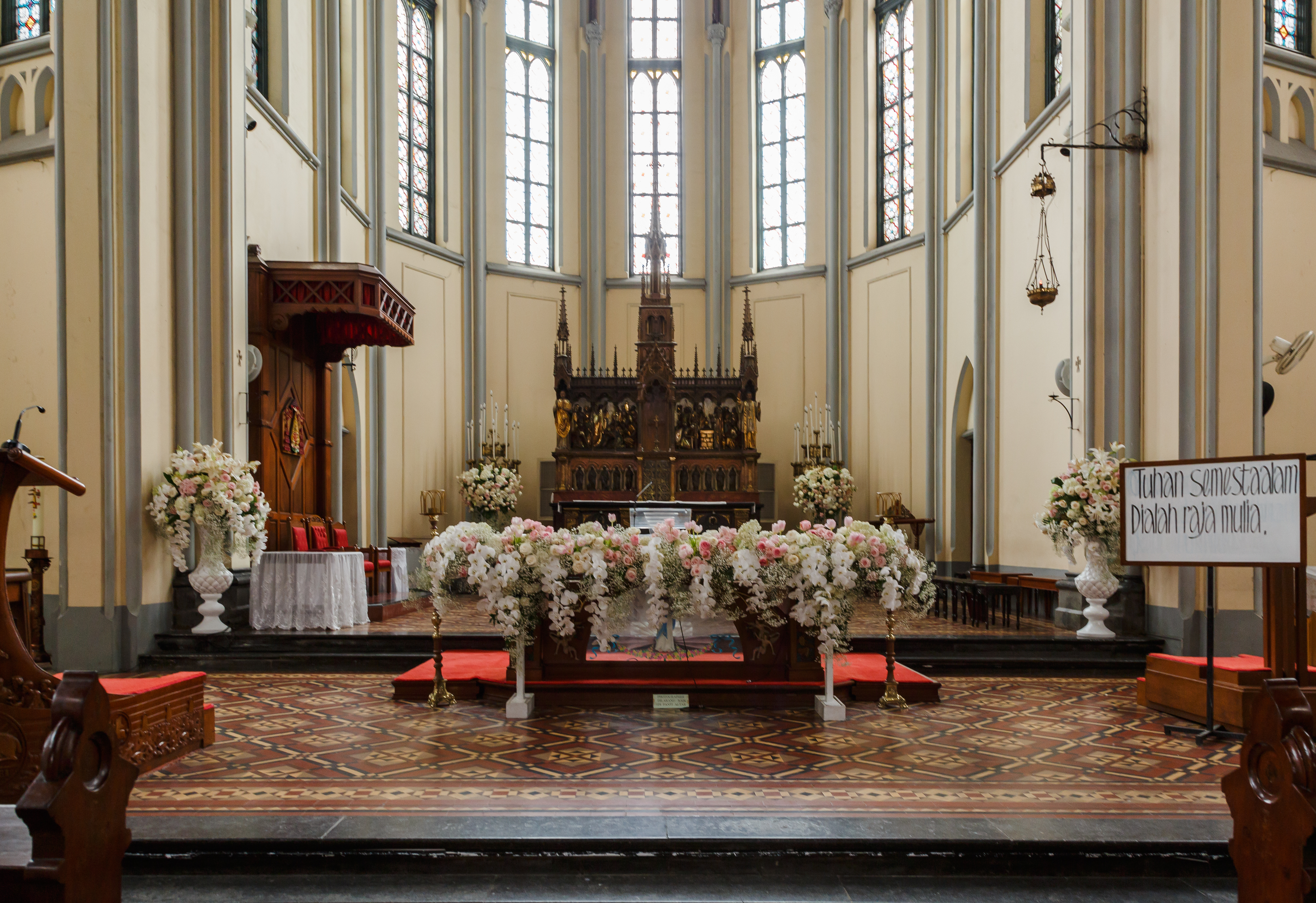 Jakarta, Indonesia: Interior view of the Jakarta Cathedral "De Kerk van Onze Lieve Vrowe ten Hemelopneming - The Church of Our Lady of the Assumption" .